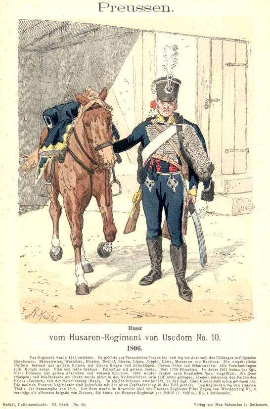 Preußen. Husaren-Regiment von Usedom No. 10. 1806